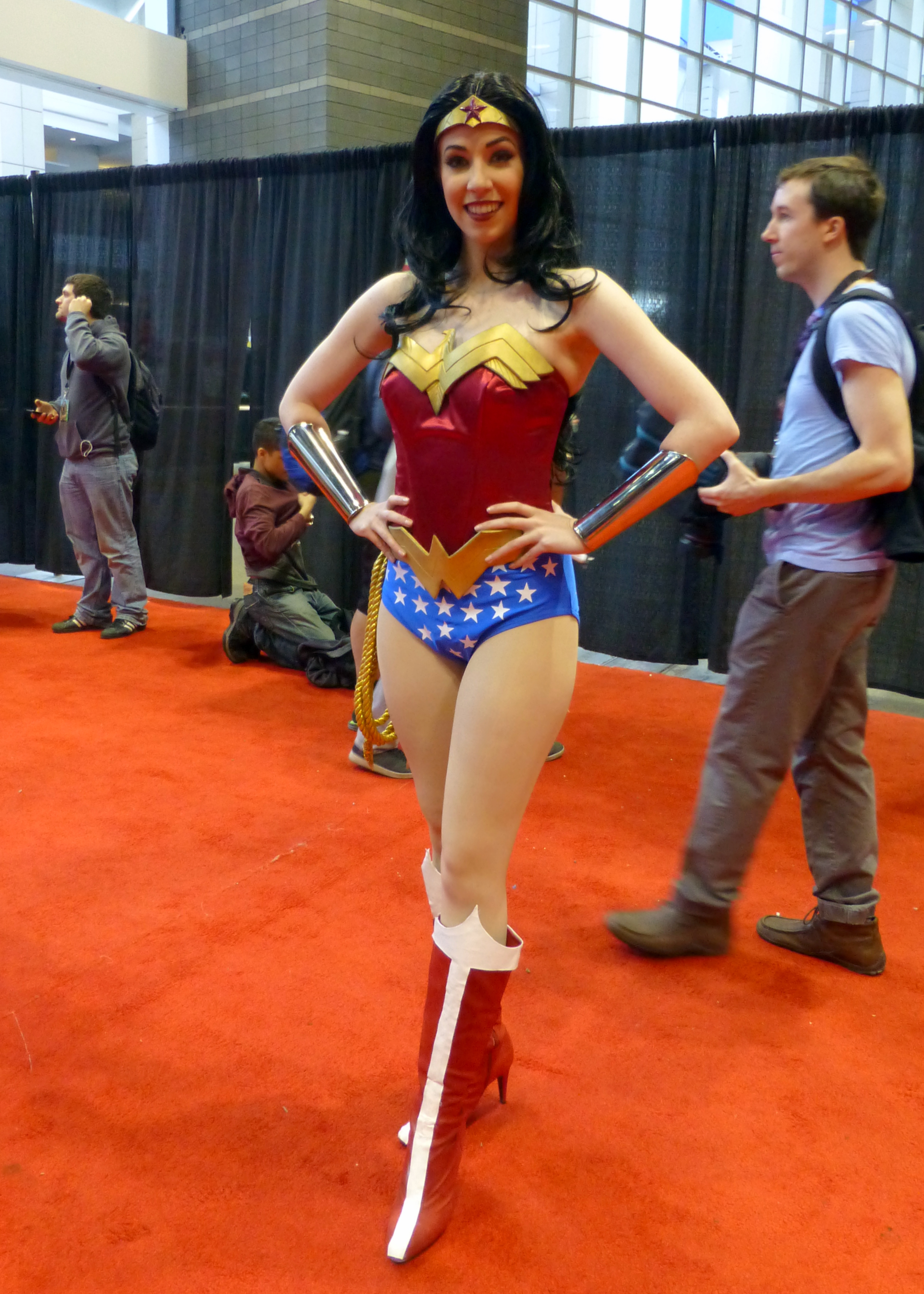 Wonder Woman Cosplay at Chicago Comic & Entertainment Expo (C2E2) 2014.